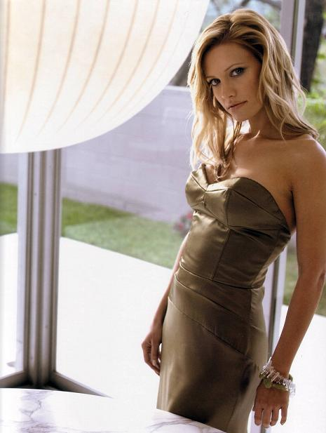 Photograph of KaDee Strickland